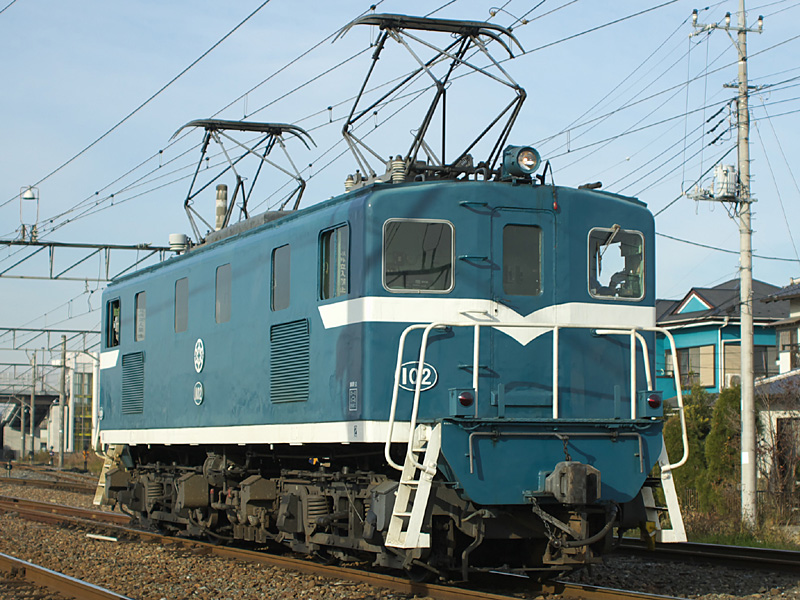 Chichibu Railway Class DeKi 100 electric locomotive DeKi 102 near Takekawa Station